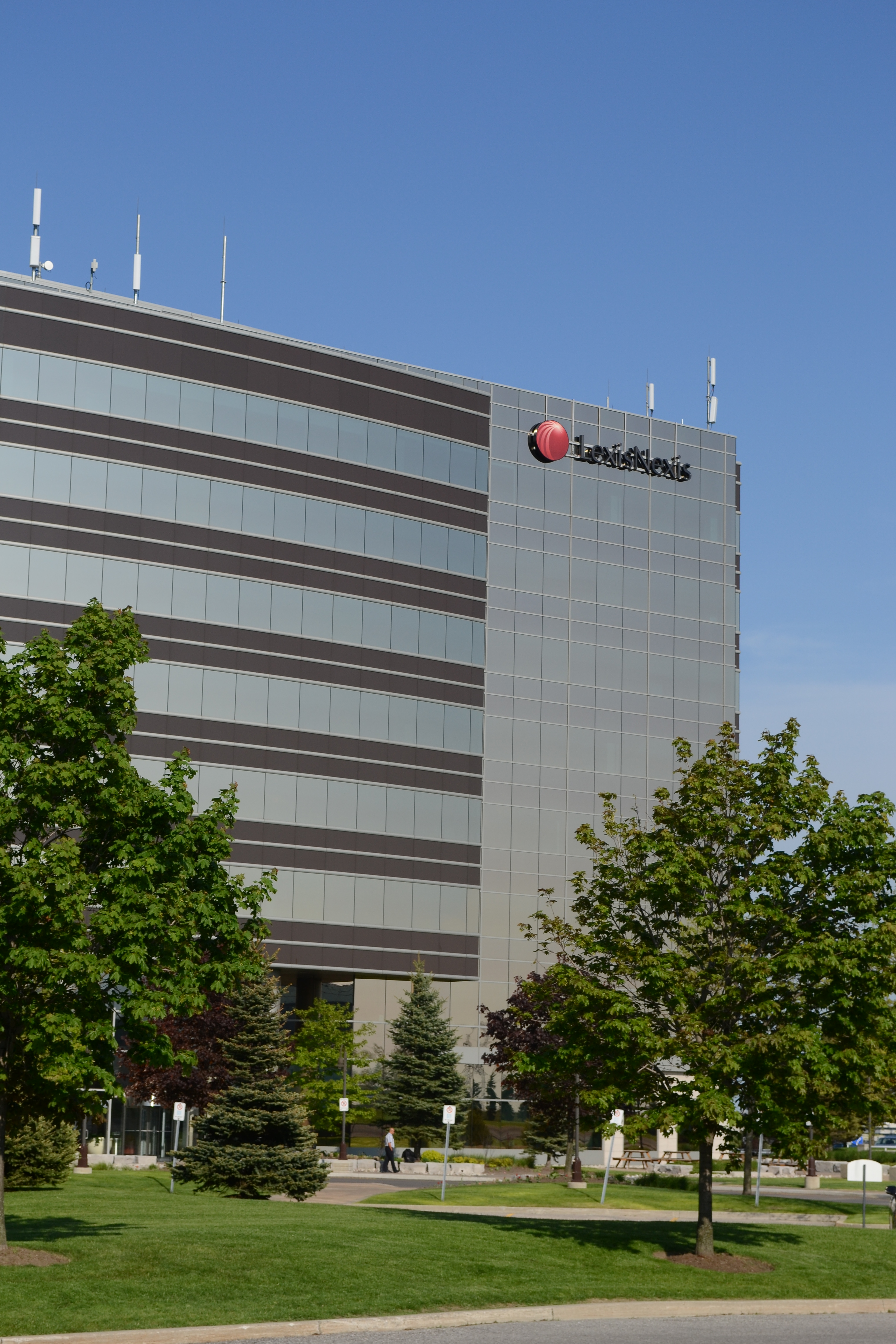 Lexis Nexis, Markham